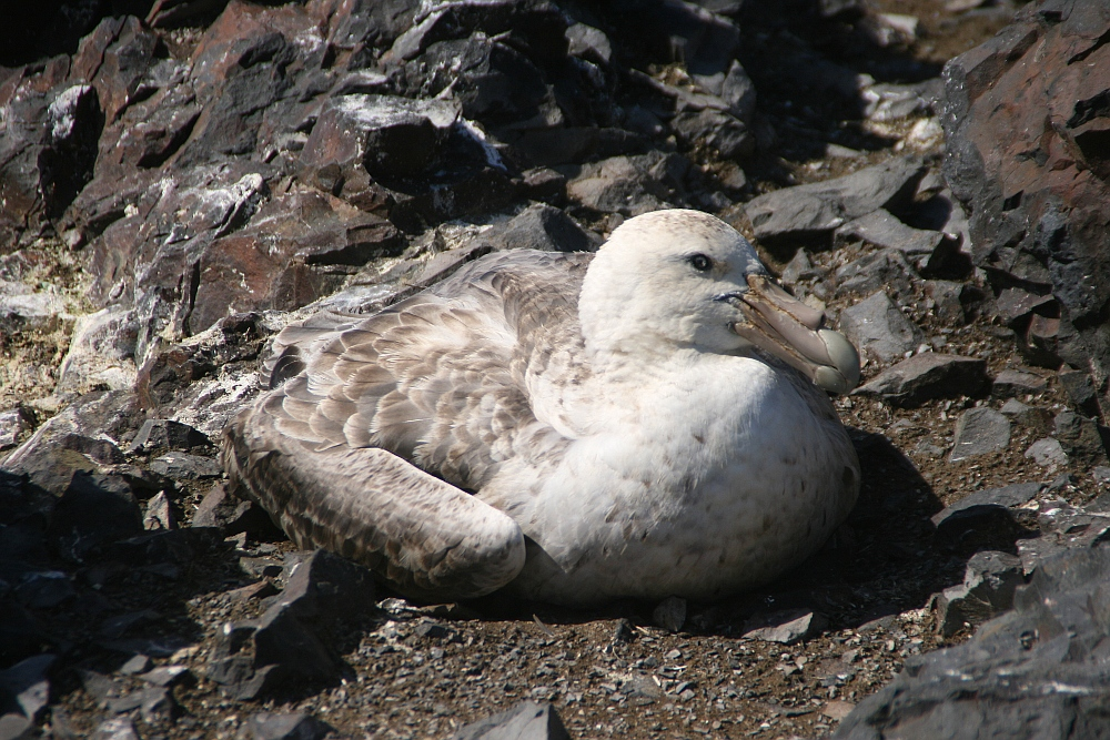 A breeding southern giant petrel Macronectes giganteus close to King George Island, Antarctica